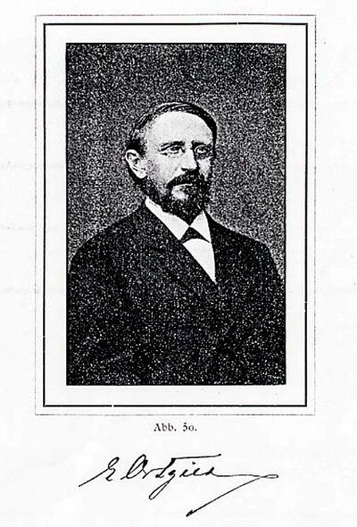 Eduard Ortgies (1829-1916), German horticulturist